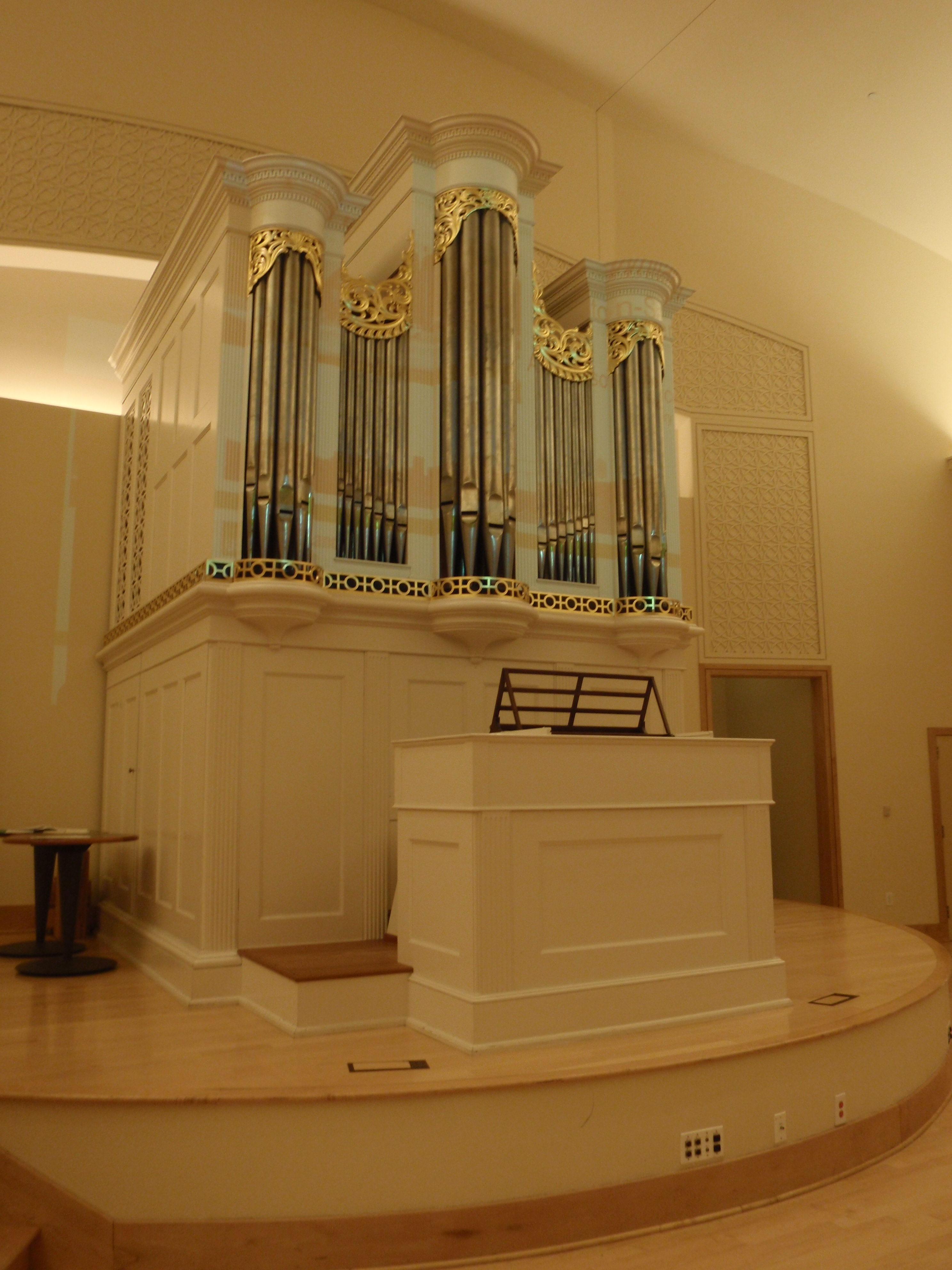 Tannenberg Organ Winston-Salem